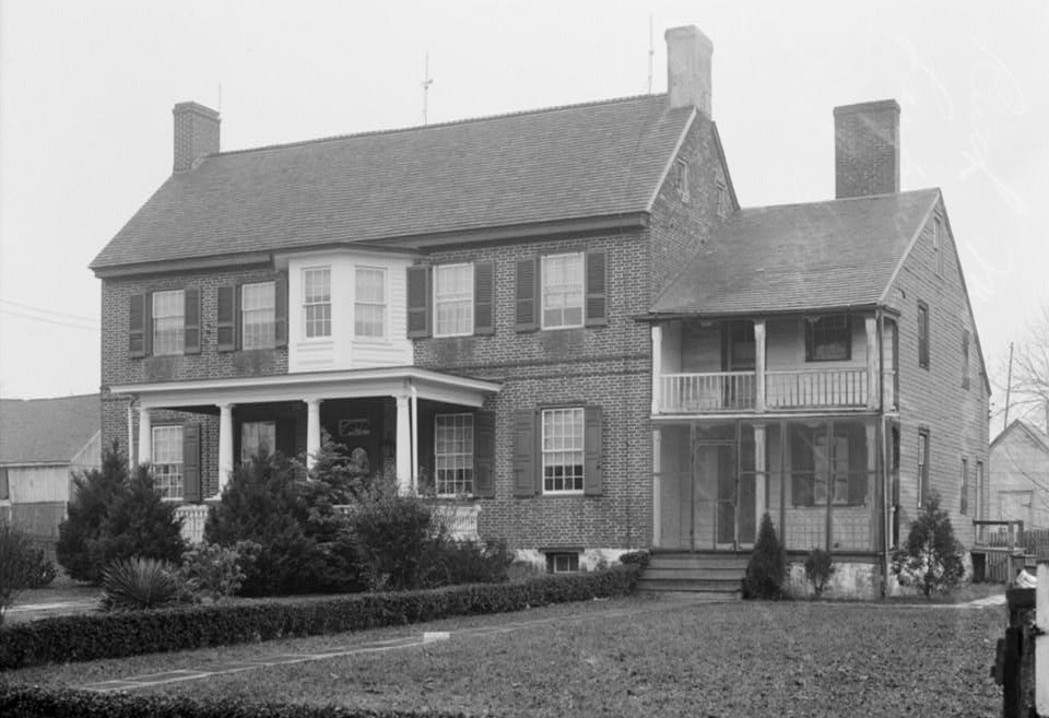 Ruth Mansion House, Main Street, Leipsic (Kent County, Delaware) cropped This file comes from the Historic American Buildings Survey (HABS), Historic American Engineering Record (HAER) or Historic American Landscapes Survey (HALS). These are programs of the National Park Service established for the purpose of documenting historic places. Records consist of measured drawings, archival photographs, and written reports. When reusing please credit: Library of Congress, Prints & Photographs Division, DEL,1-LEIP,1-1 This tag does not indicate the copyright status of the attached work. A normal copyright tag is still required. See Commons:Licensing. This work is in the public domain in the United States because it is a work prepared by an officer or employee of the United States Government as part of that person’s official duties under the terms of Title 17, Chapter 1, Section 105 of the US Code. Note: This only applies to original works of the Federal Government and not to the work of any individual U.S. state, territory, commonwealth, county, municipality, or any other subdivision. This template also does not apply to postage stamp designs published by the United States Postal Service since 1978. (See § 313.6(C)(1) of Compendium of U.S. Copyright Office Practices). It also does not apply to certain US coins; see The US Mint Terms of Use. This file has been identified as being free of known restrictions under copyright law, including all related and neighboring rights. Object location39° 14′ 25″ N, 75° 30′ 51″ W